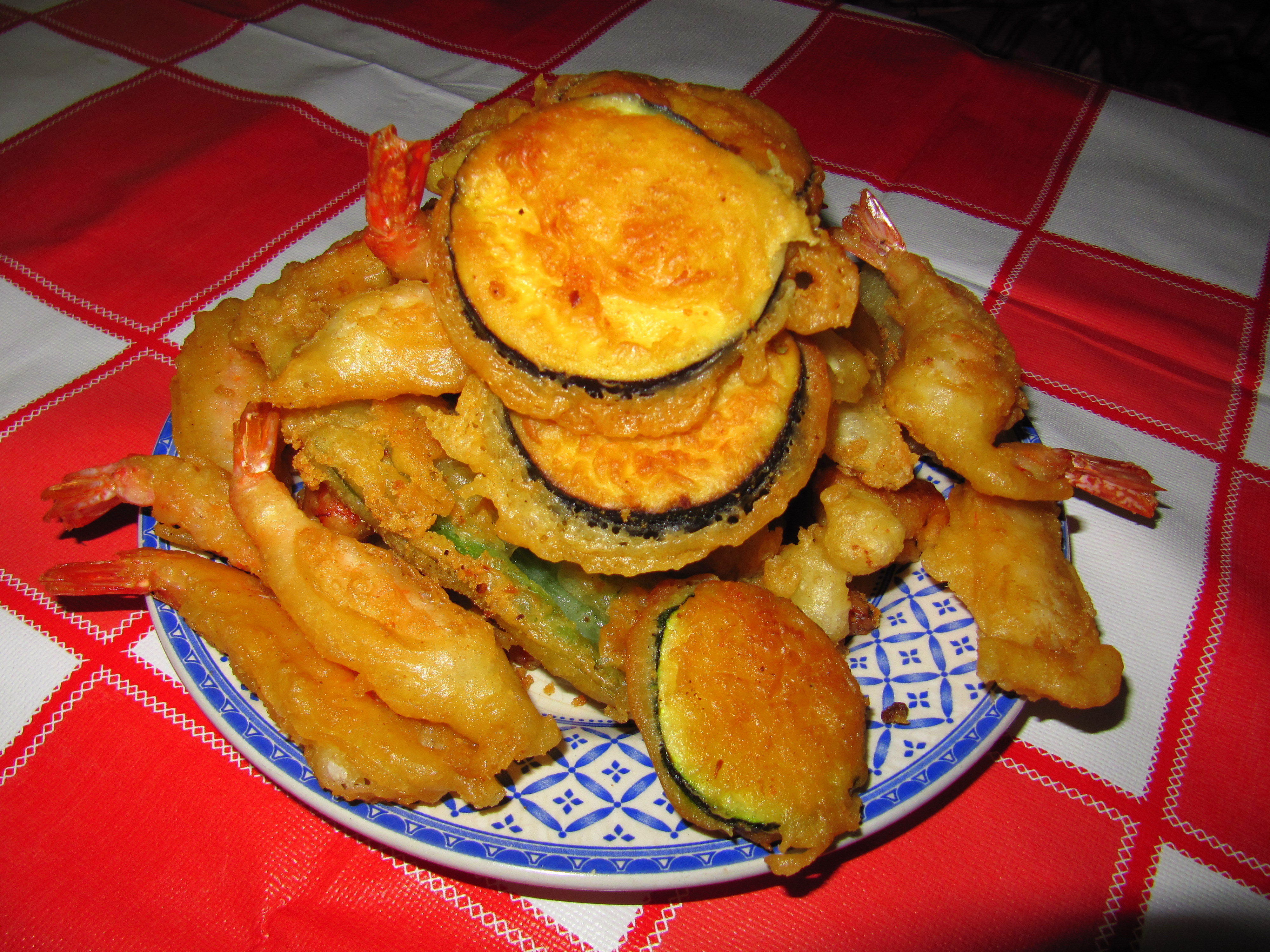 Rebozados de verduras y gambas, también llamados gabardinas en Murcia